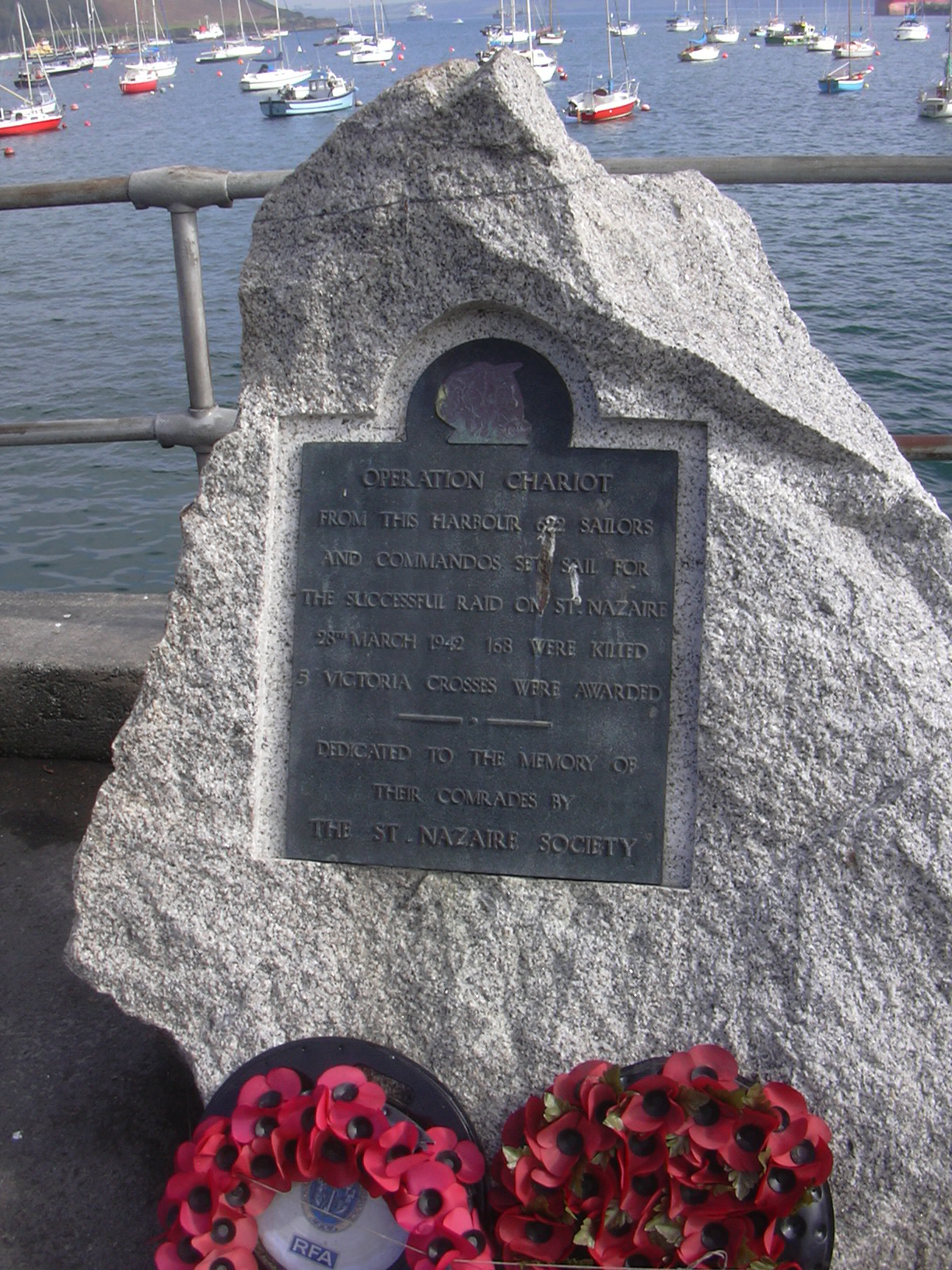 St Nazaire Raid memorial at Fish Strand Quay, Falmouth. It was moved, July 2008, to the Prince of Wales Quay.